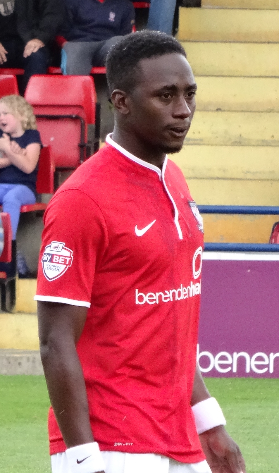 Marvin McCoy playing for York City against Northampton Town at Bootham Crescent, York on 16 August 2014